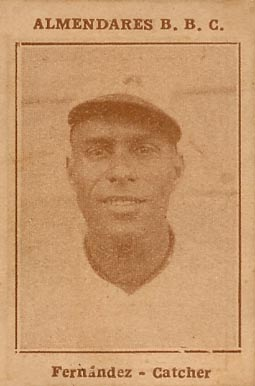 Cuban baseball card of Jose Maria Fernandez